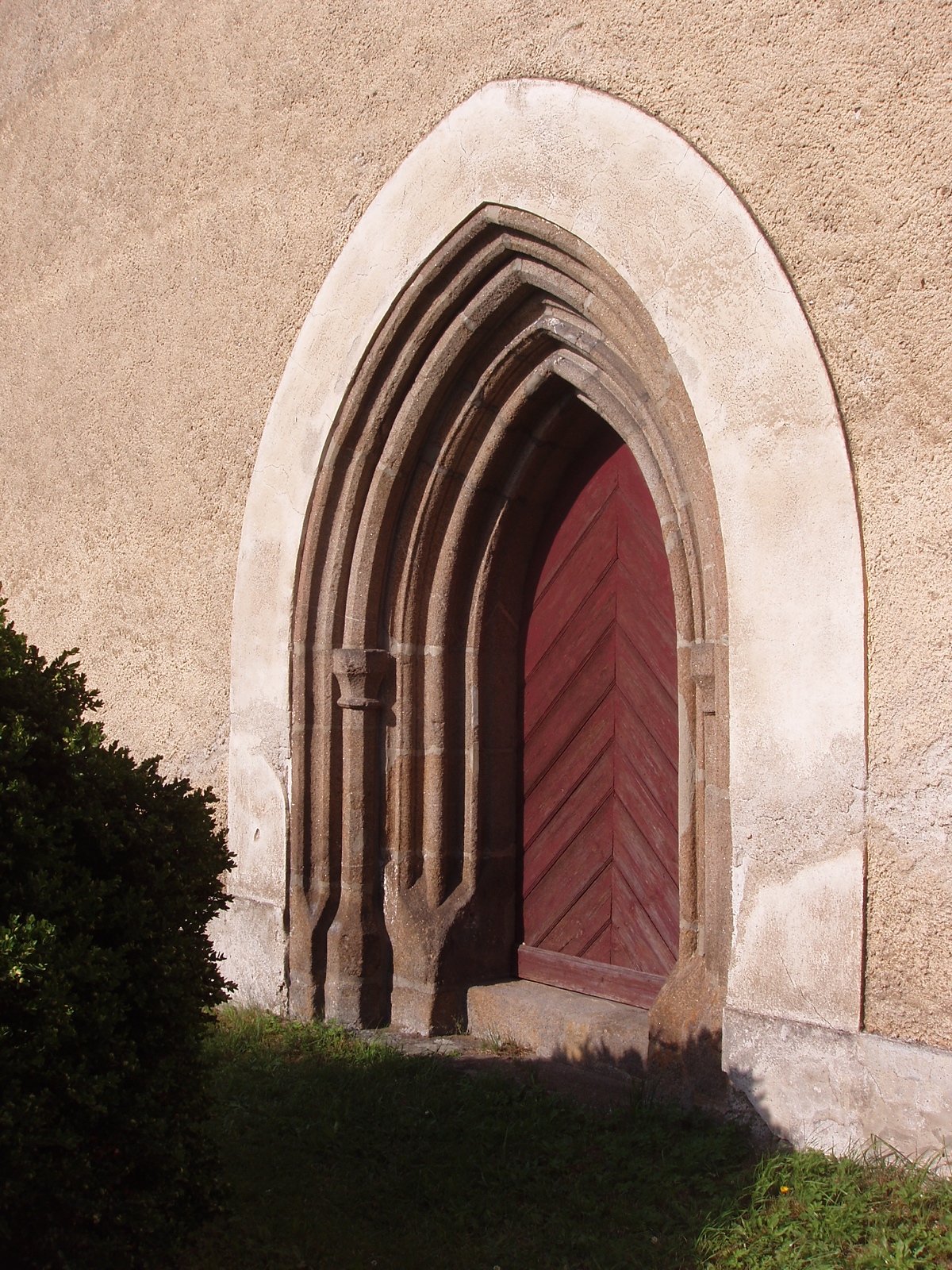 Portal of St. John the Baptist church in Dražice, South Bohemia, Czech Republic